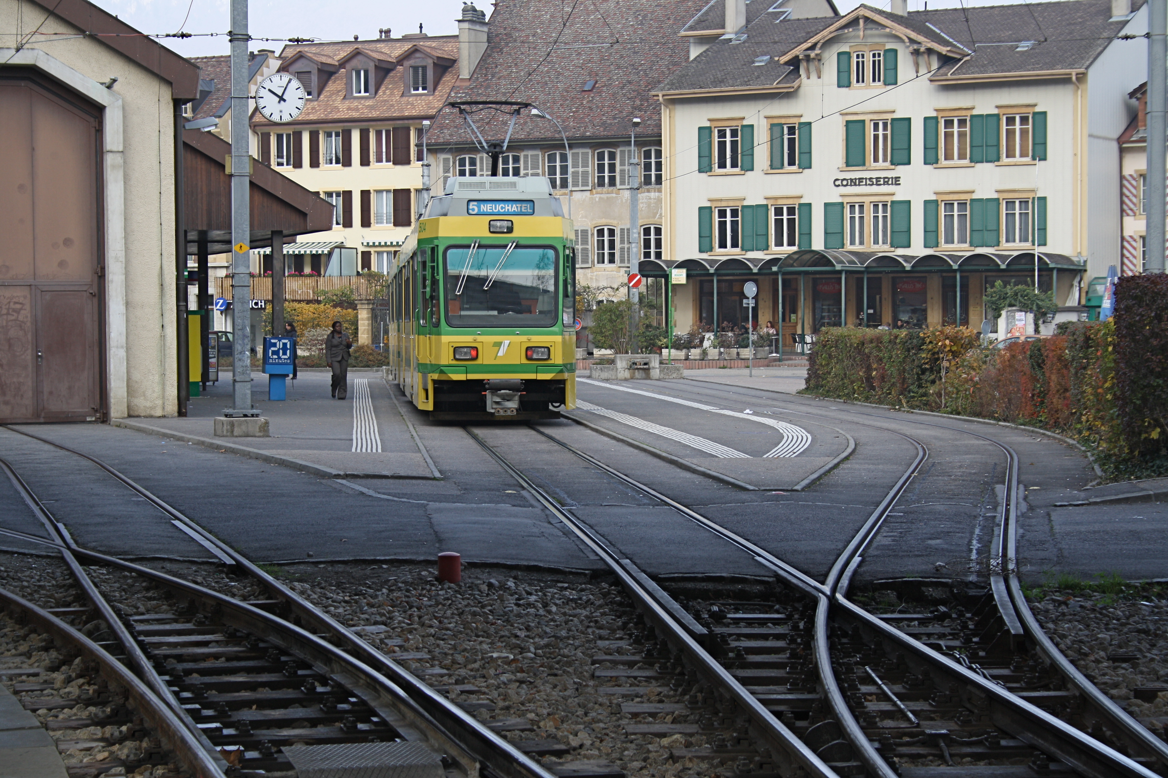 Boudry terminus